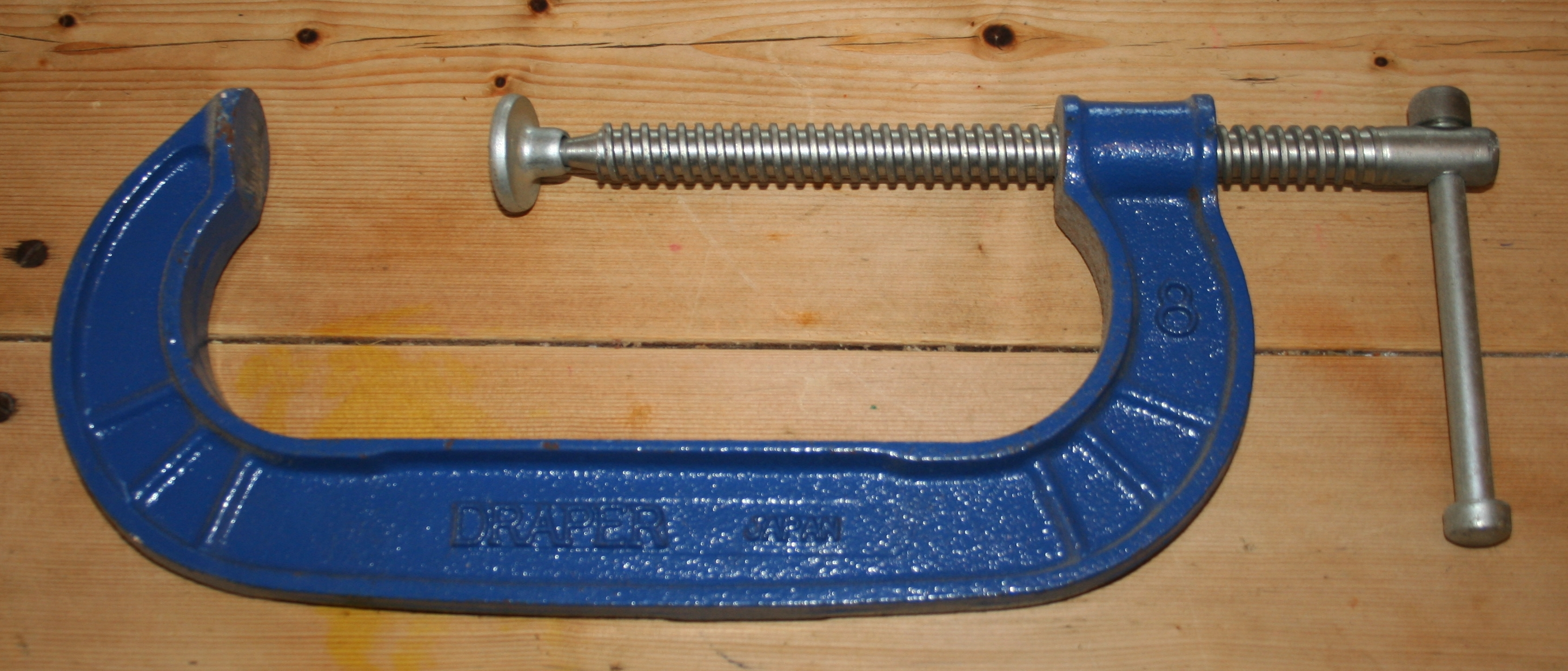 An 8-inch G-clamp (C-clamp)